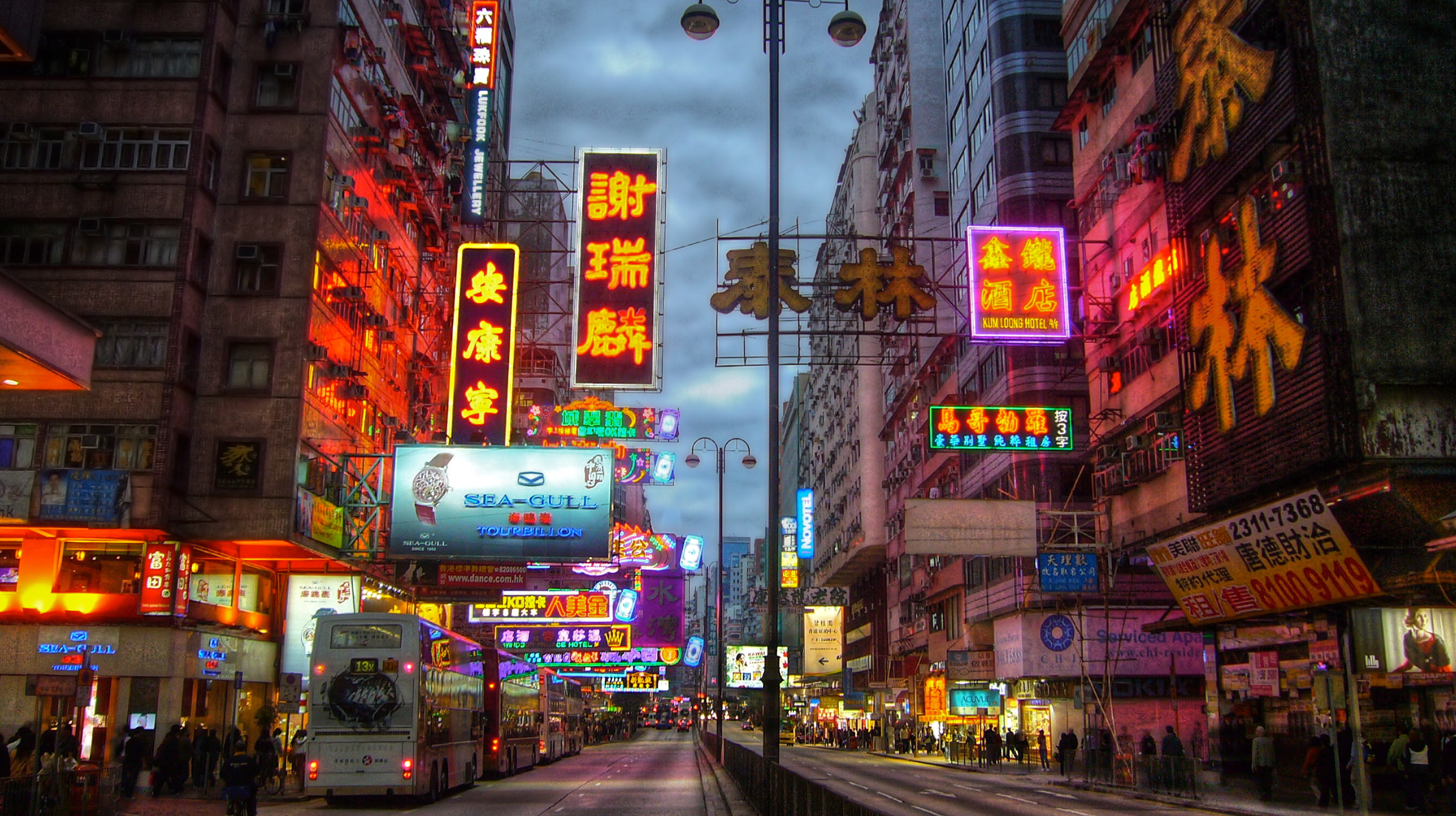 Nathan Road Kowloon 彌敦道